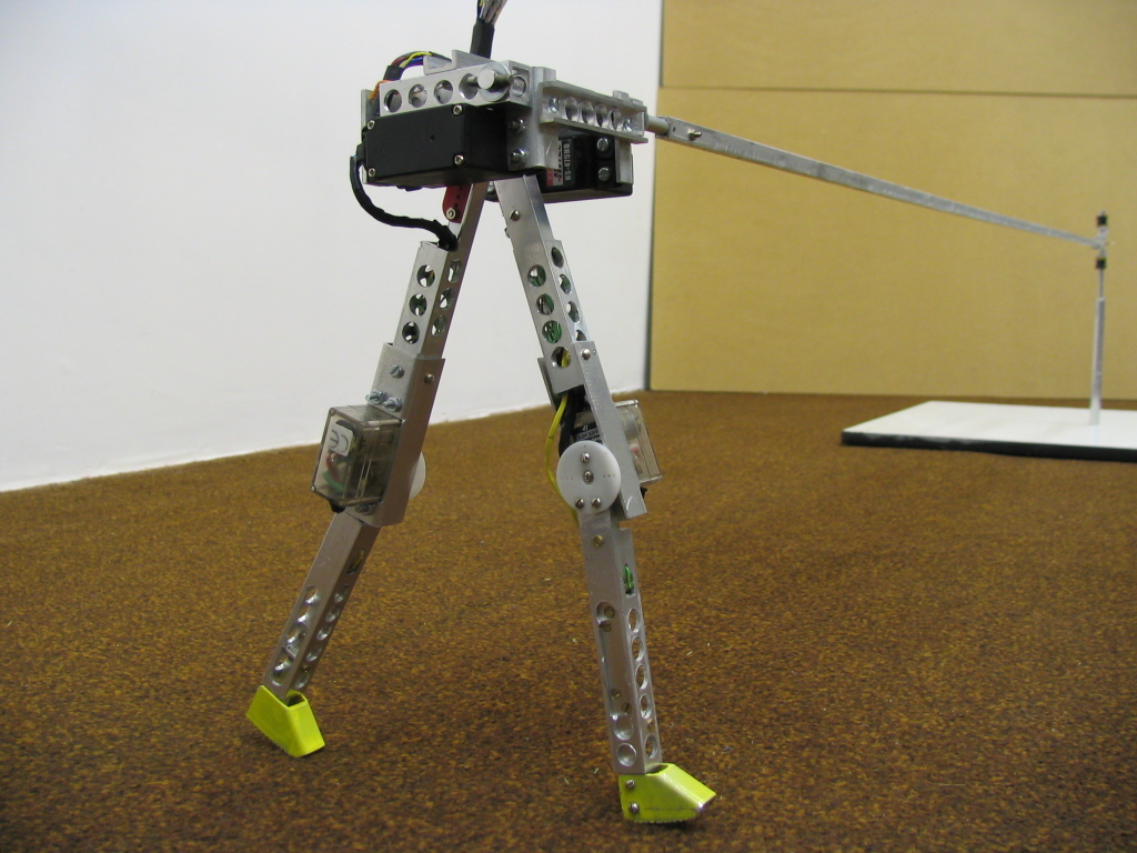 This is a photo of the first version of the RunBot which has been used in the first publication in Neural Computation, May 2006, Vol. 18, No. 5, Pages 1156-1196 Posted Online March 13, 2006. (